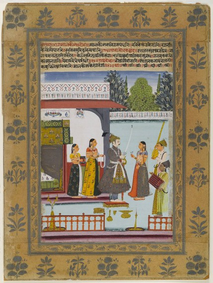 Page from a Dispersed Ragamala Series